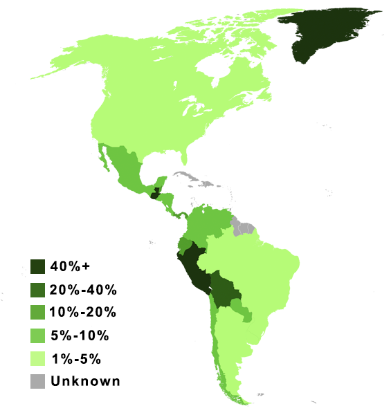 I translated the final label on the map's from Spanish to English. I changed it from "Desconocido" to "Unknown". The description of this map on the file from which it derives was "map of the percentage of the pure Amerindian population" written in Spanish.